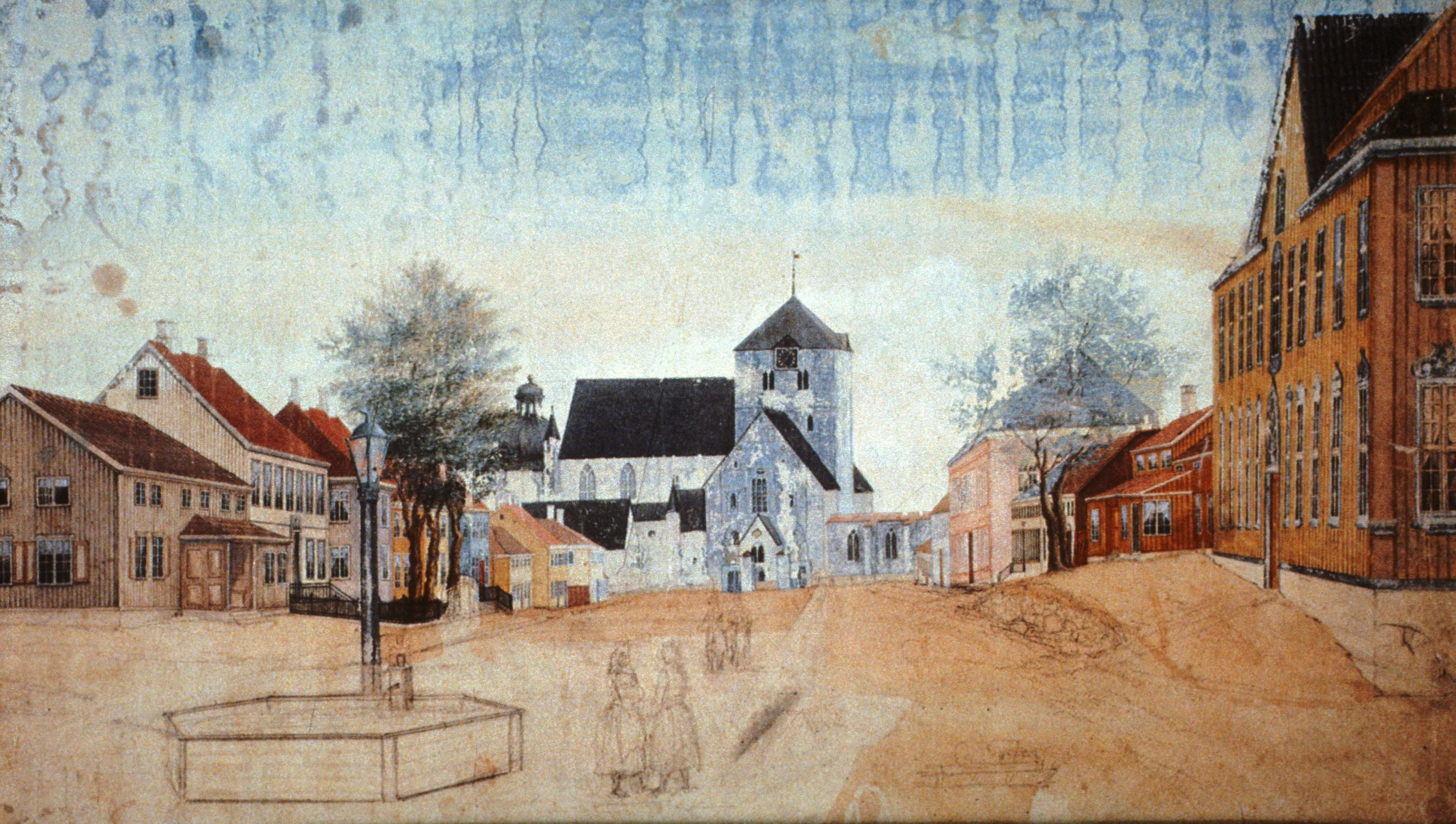 a sketch showing the southern part of Munkegaten (Monk street) in Trondheim, Norway. A painting by the same artist, based on this sketch, is dated 1861. To the right: Harmonien, a famous wooden building in Trondheim, at the far end: The Nidaros Cathedral. Several buildings are left out, on both sides of the street